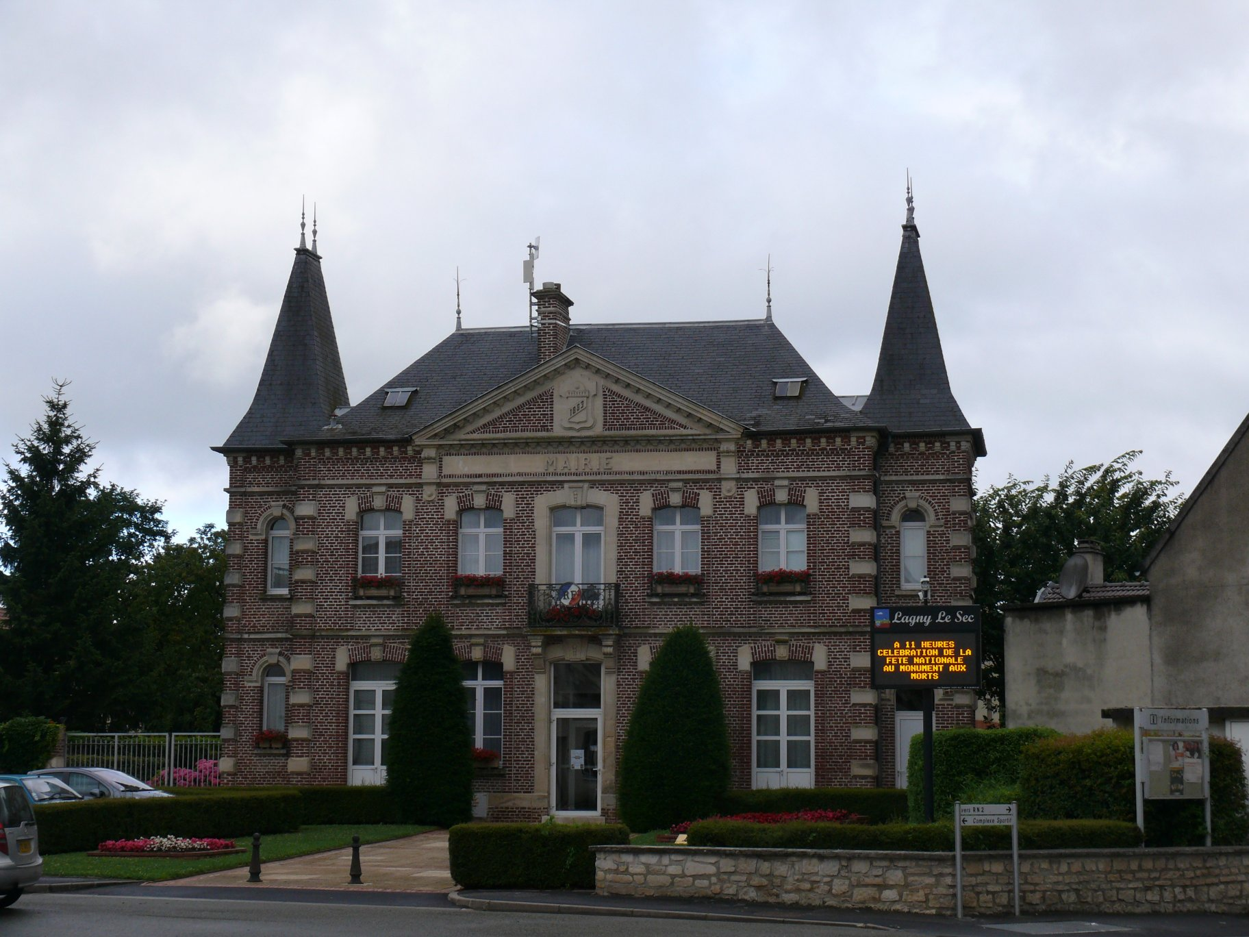 The town hall of Lagny-le-Sec (Oise, Picardie, France).